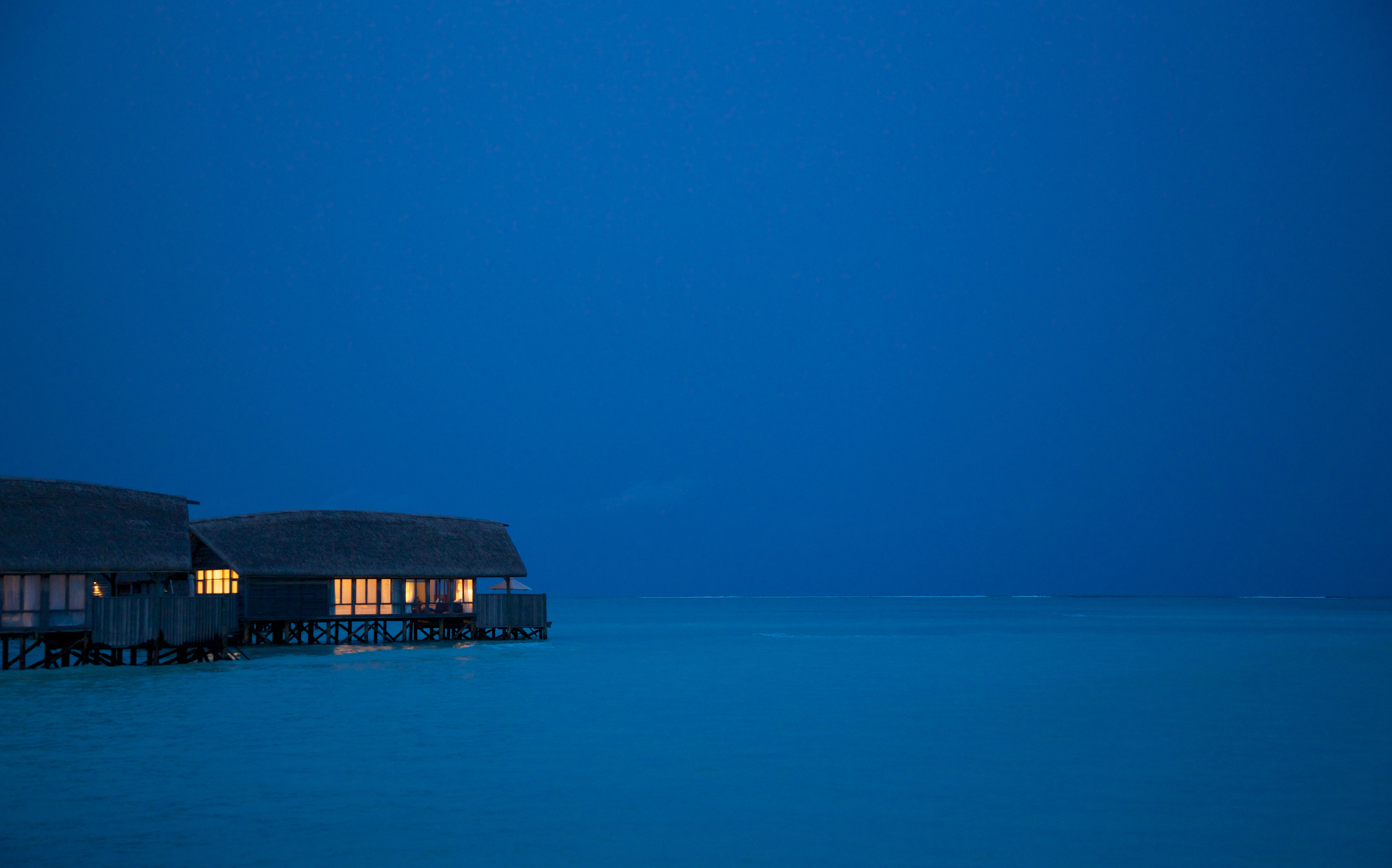 Essential Maldives (COCOA ISLAND/MALDIVES) Needs additional description